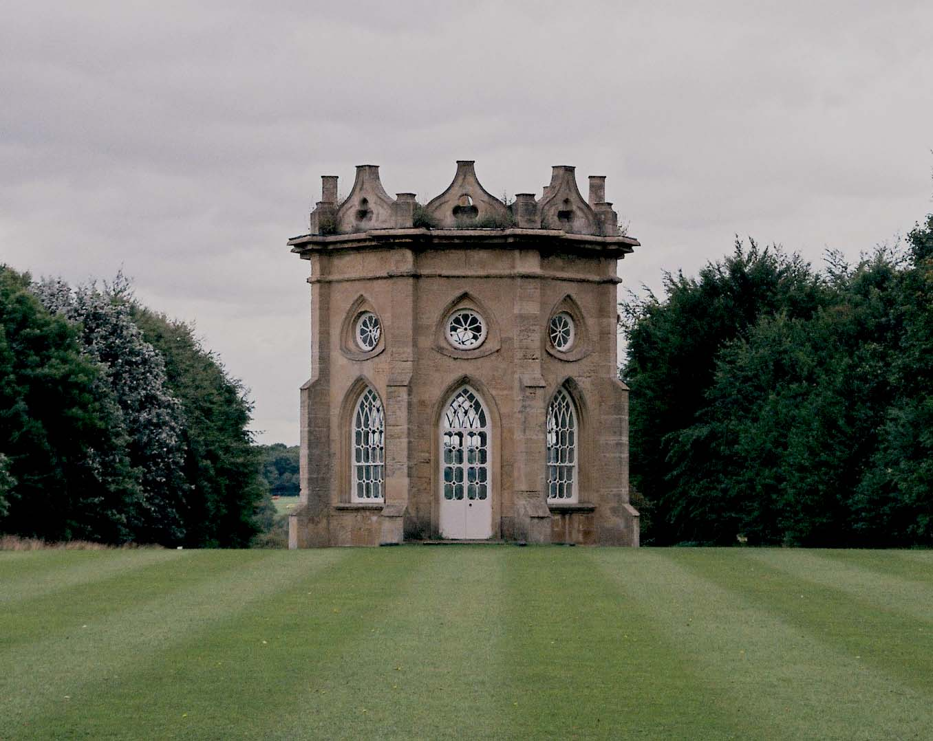 Grade I listed building on the Bramham Estate.